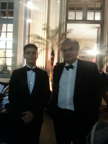 ARNALDO JABOR E MARCELO MORAES CAETANO, Academia Brasileira de Letras